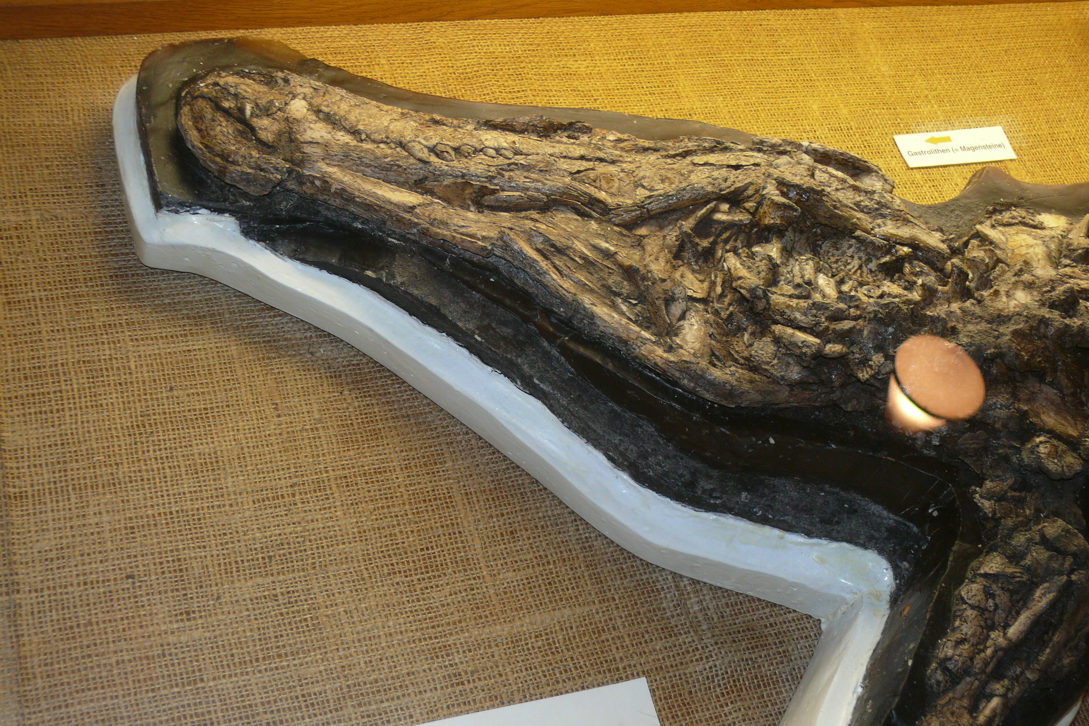 Skull of holotype of the extinct crocodile “Weigeltisuchus geiseltalensis” KUHN, 1938 (specimen no. GMH Leo X 8001; subsequently “Pristichampsus geiseltalensis”, now referred to Boverisuchus magnifrons KUHN, 1938)[1] from the Eocene deposits of the Geiseltal fossil site, Saxony Anhalt, Central Germany. These crocodiles have laterally compessed and serrated teeth reminiscent of the teeth of large carnivorous dinosaurs.